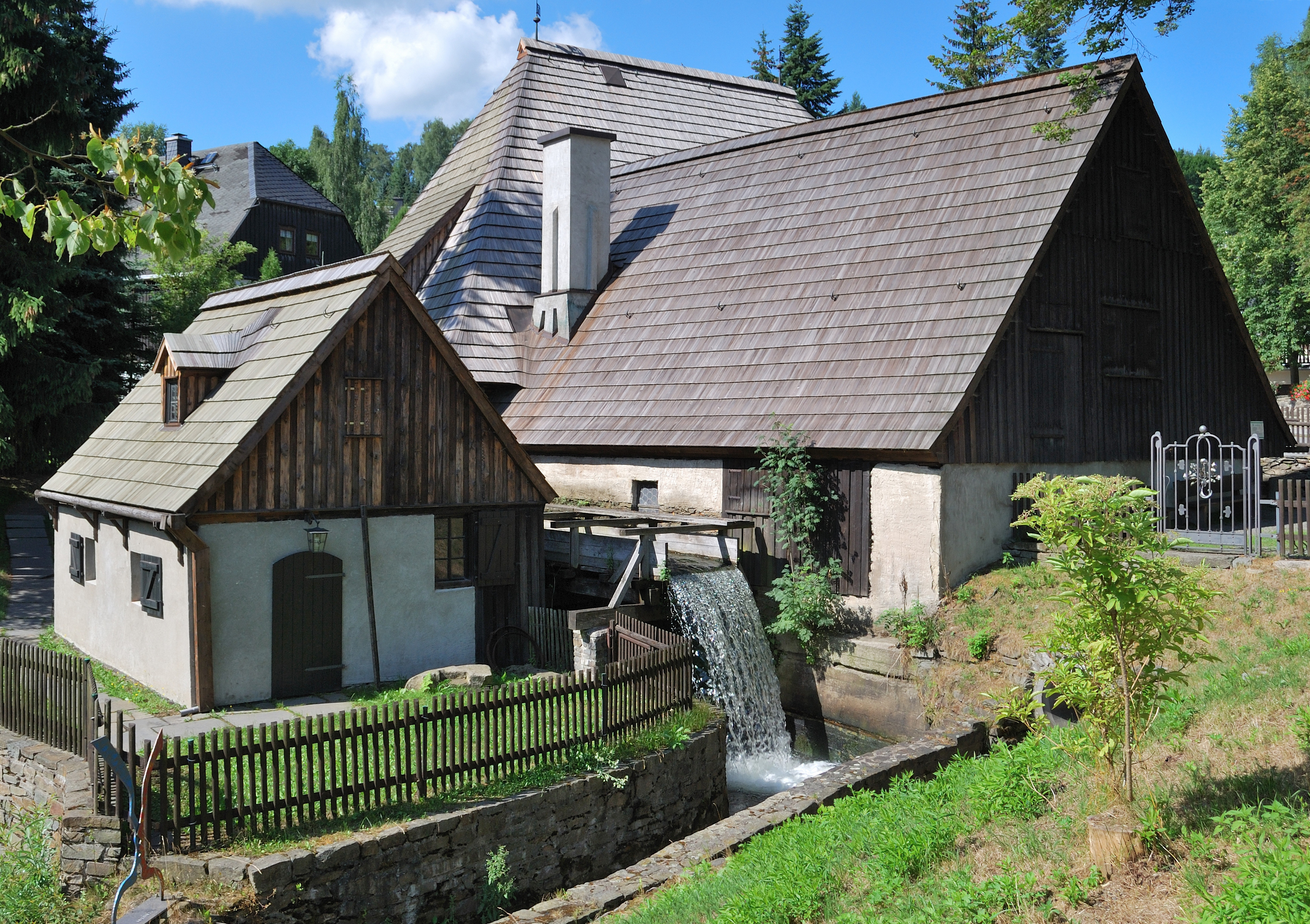 The historical hammer mill Frohnauer Hammer in Annaberg-Buchholz in Saxony, Germany.